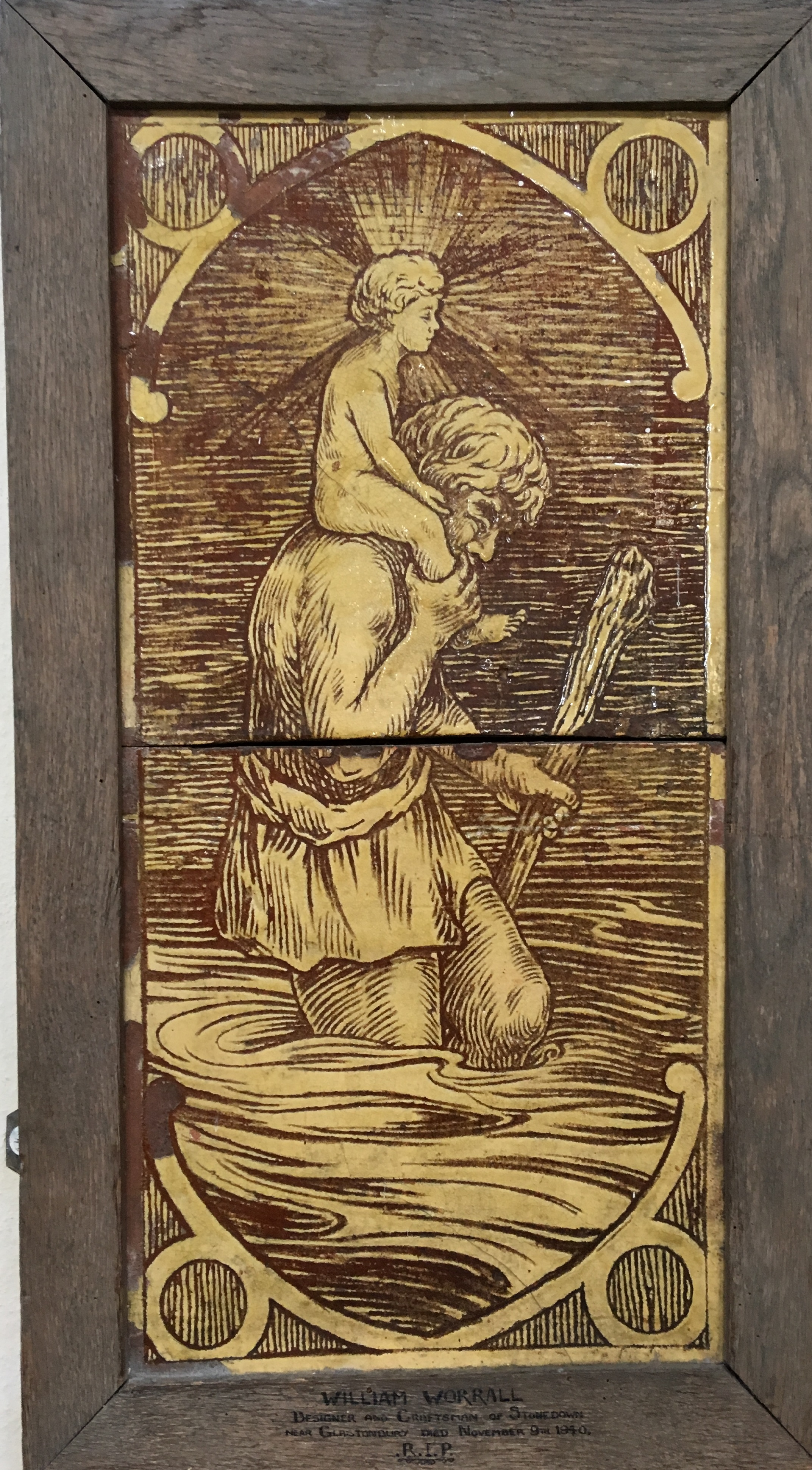 Photograph of memorial plaque in St John's Church, Glastonbury. This marks the life of William E Worrall. It shows an image of St Christopher carrying Christ.